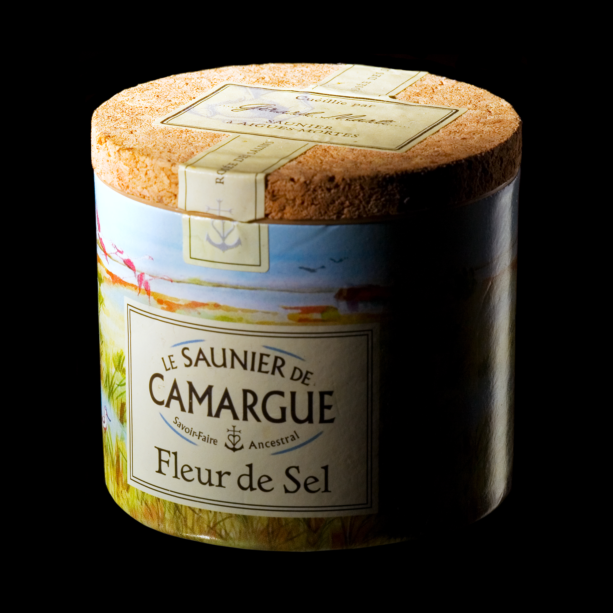 A can of Le Saunier de Camargue brand fleur de sel sea salt.